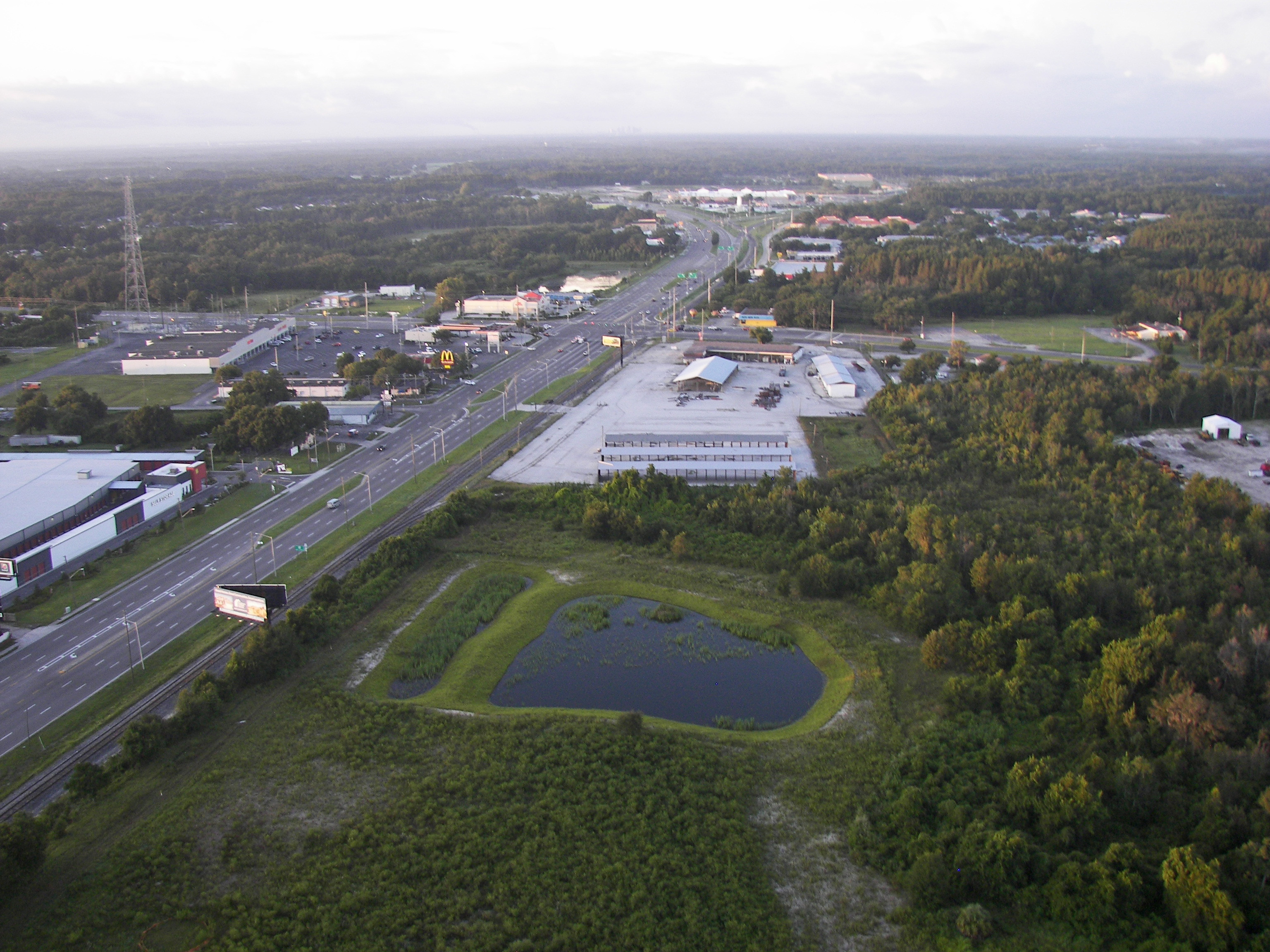 Aerial view of U.S. Route 41 and State Road 54 in Land O' Lakes from a hot air balloon.